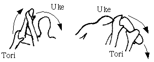 Author: Christophe Dang Ngoc Chan, from Esperanto Wikipedia.